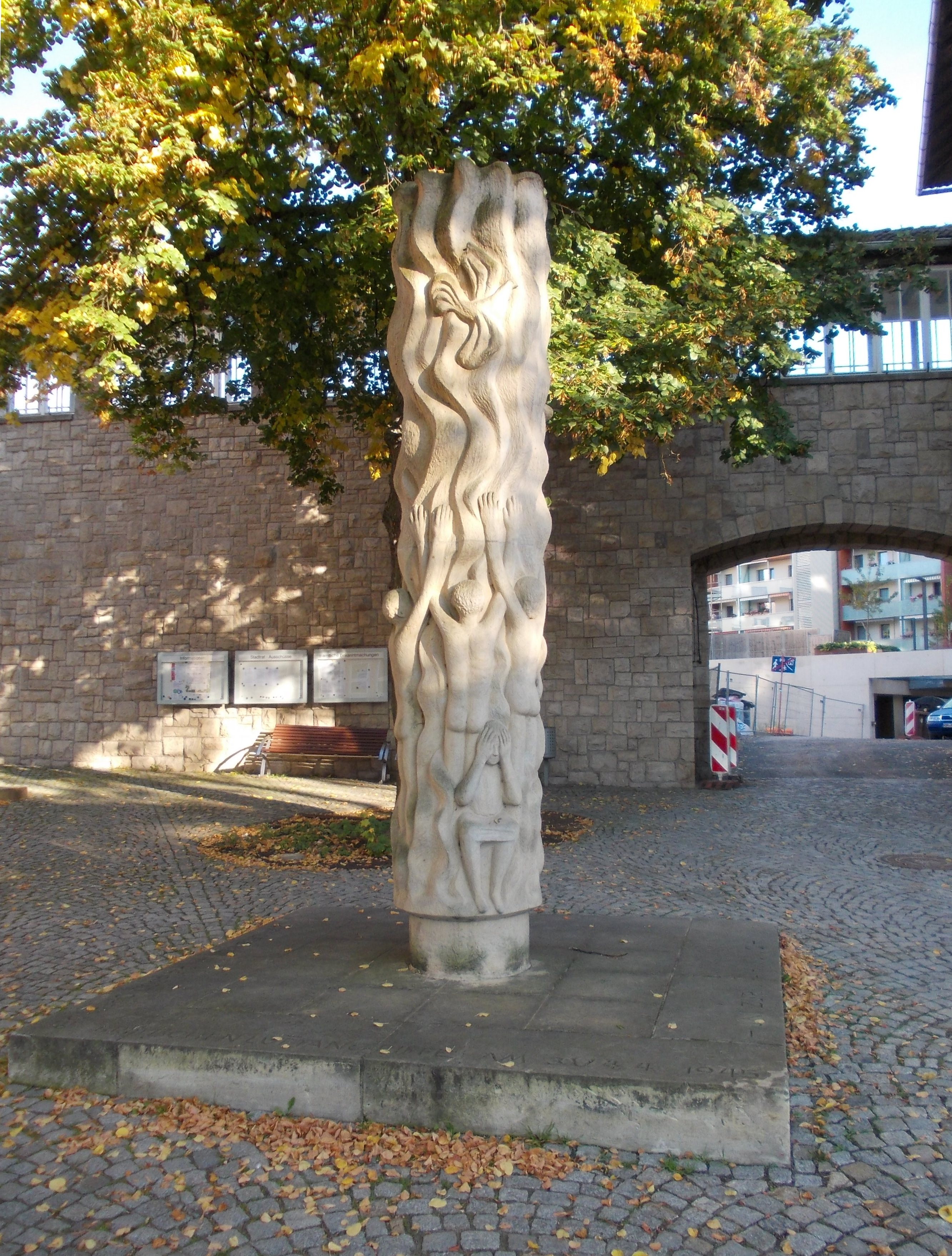 Memorial to the victims of the bombing raids in April 1945 in Nordhausen (Thuringia)